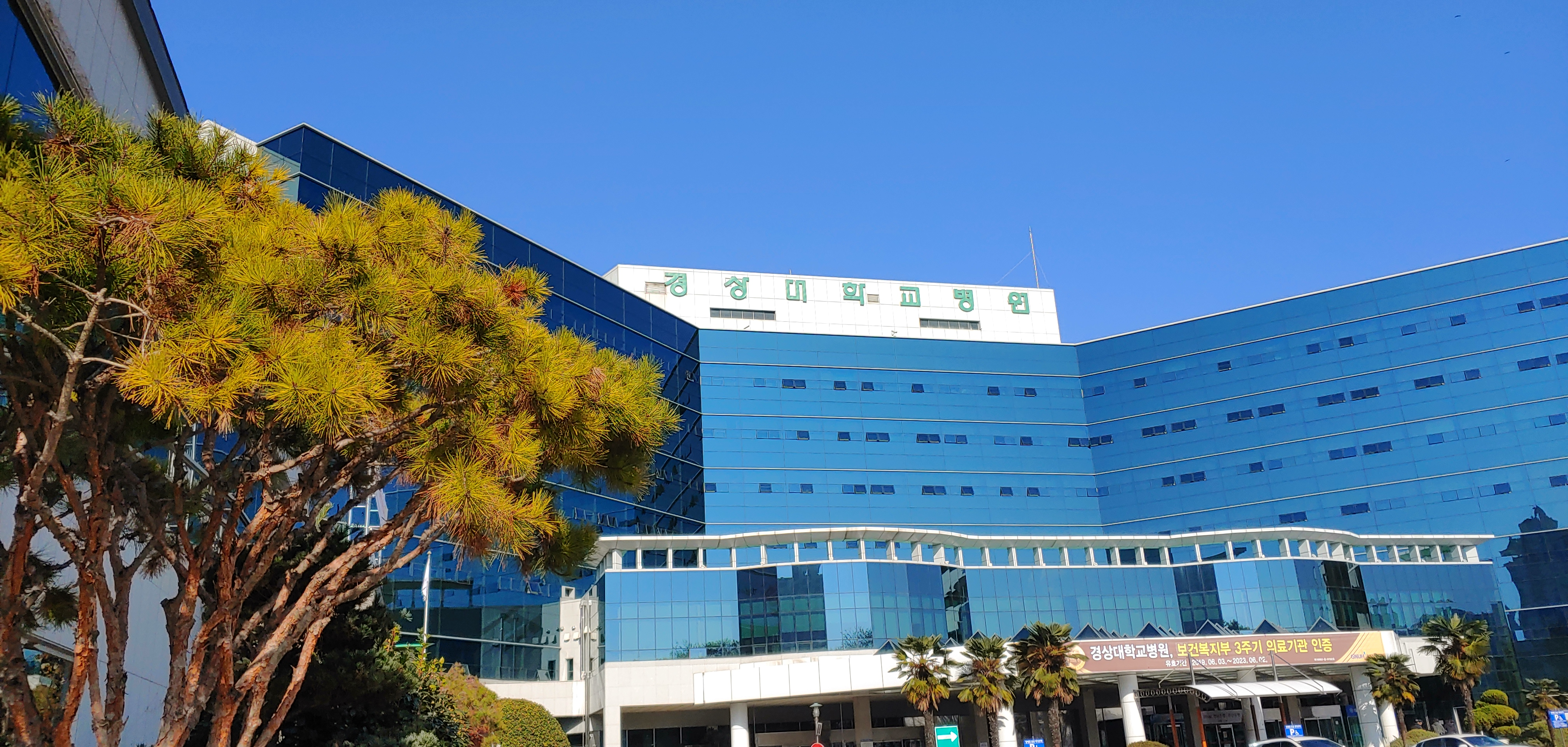 Gyeongsang National University Hospital